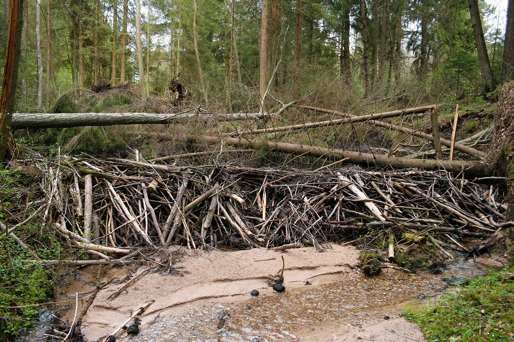 European Beaver (Castor fiber) dam near Inkūnai, Anykščiai district, Lithuania